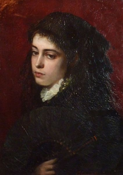 Lulu Cornicelius